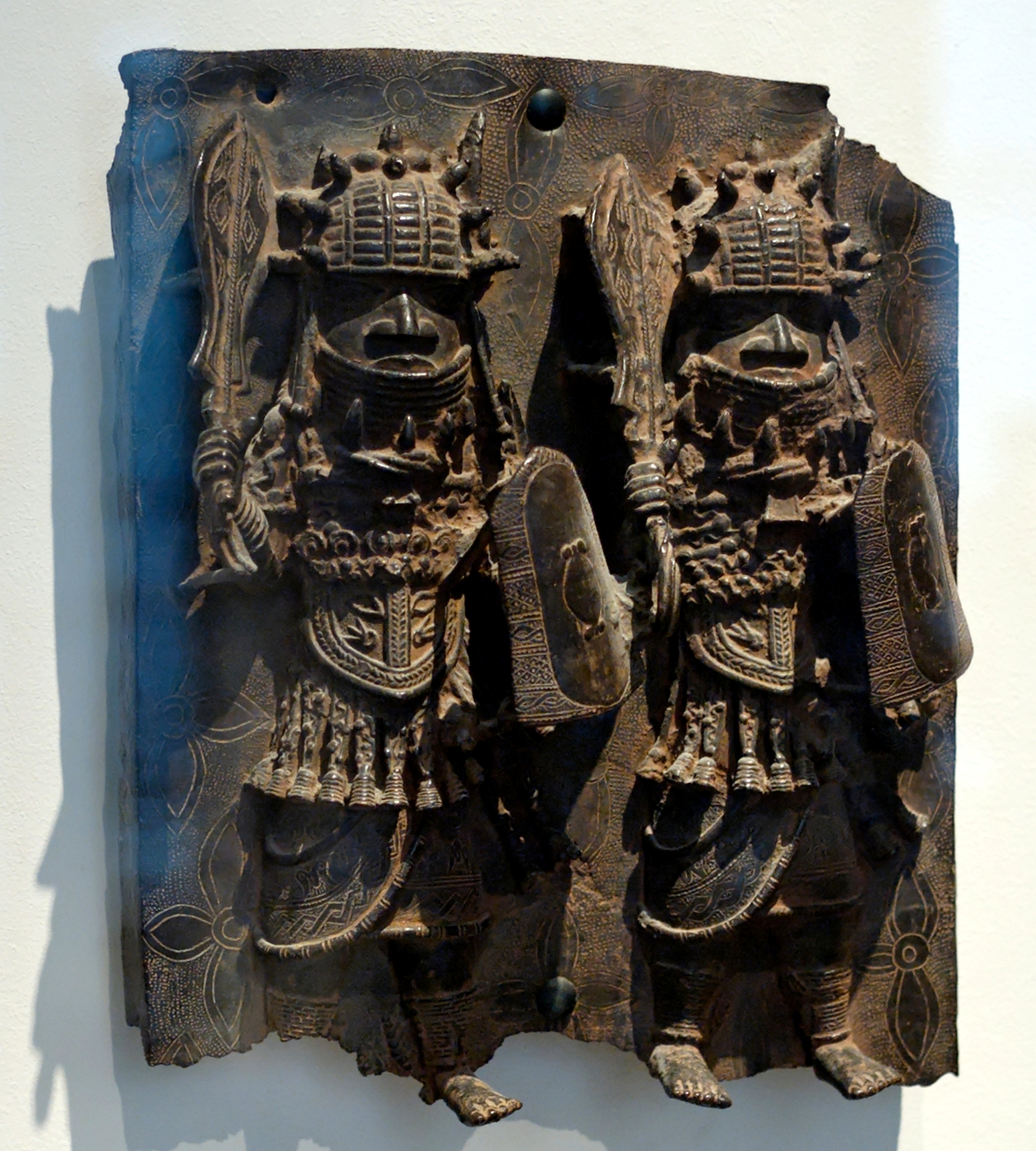 Warriors holding their ceremonial swords. Sculpture of the Benin Kingdom. Bronze, 16th-18th century, Nigeria.